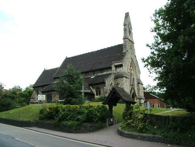 St Mary's Church, Greenhithe, Kent Behind McDonalds Restaurant on the A226 to Gravesend is the quaint church of St Mary's. Facing east toward London it follows the direction alignment pattern of most ancient places of worship in england.